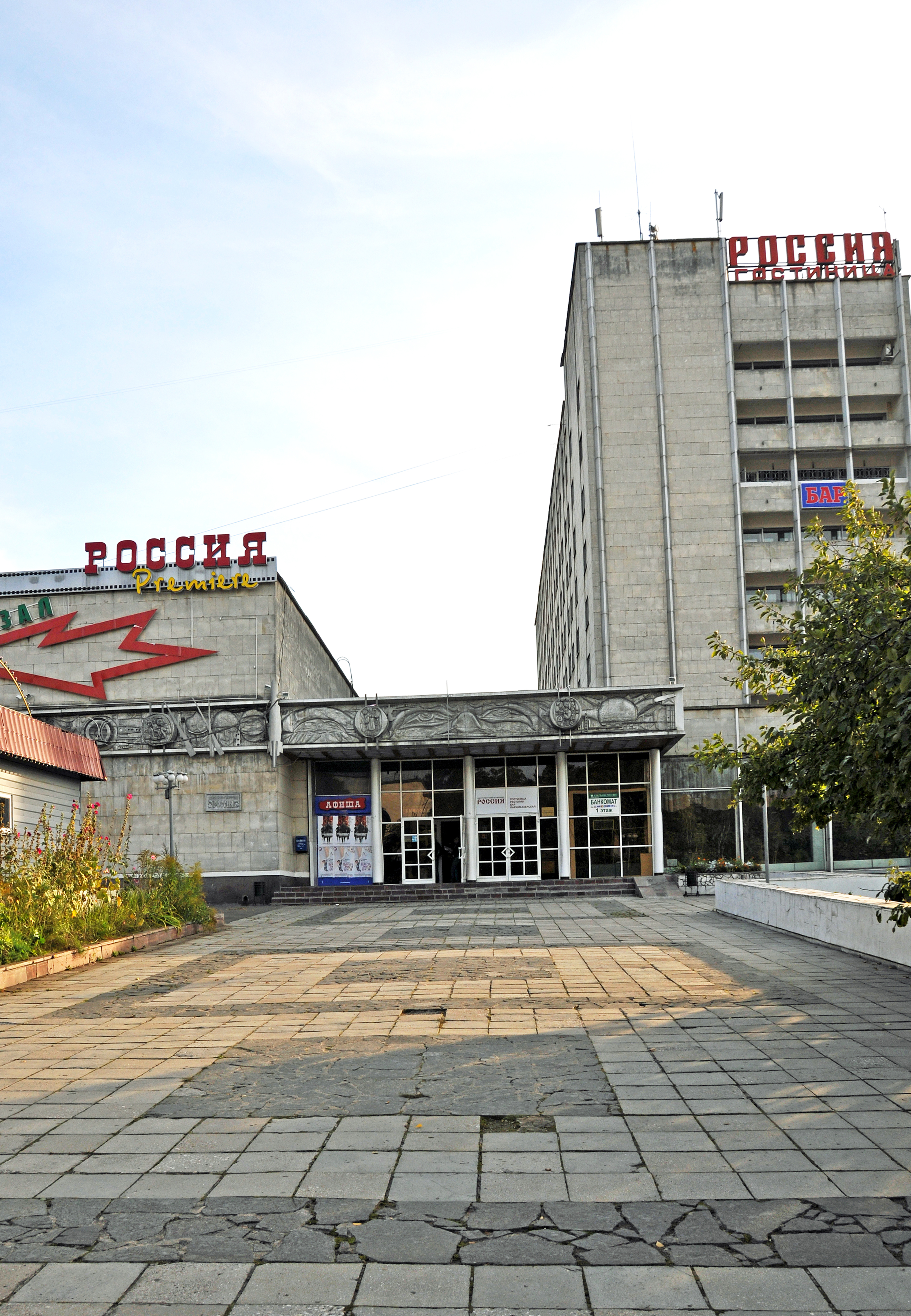 PLEASE, no multi invitations in your comments. Thanks. I AM POSTING MANY DO NOT FEEL YOU HAVE TO COMMENT ON ALL - JUST ENJOY. Hotel Rossiya, Smolensk. I do not normally show the hotels I stay at, they are all just great., but then there is this one. This we were told is the best one in the area. It is a true communist type of construction and the first hotel I stayed at that had a theatre. I went to my room and decised to check it out, the plumbing was from the dark ages and my mattress was pink with blue bunny rabbits. It all seemed clean but I did not get inside the bed and left the light on all night.